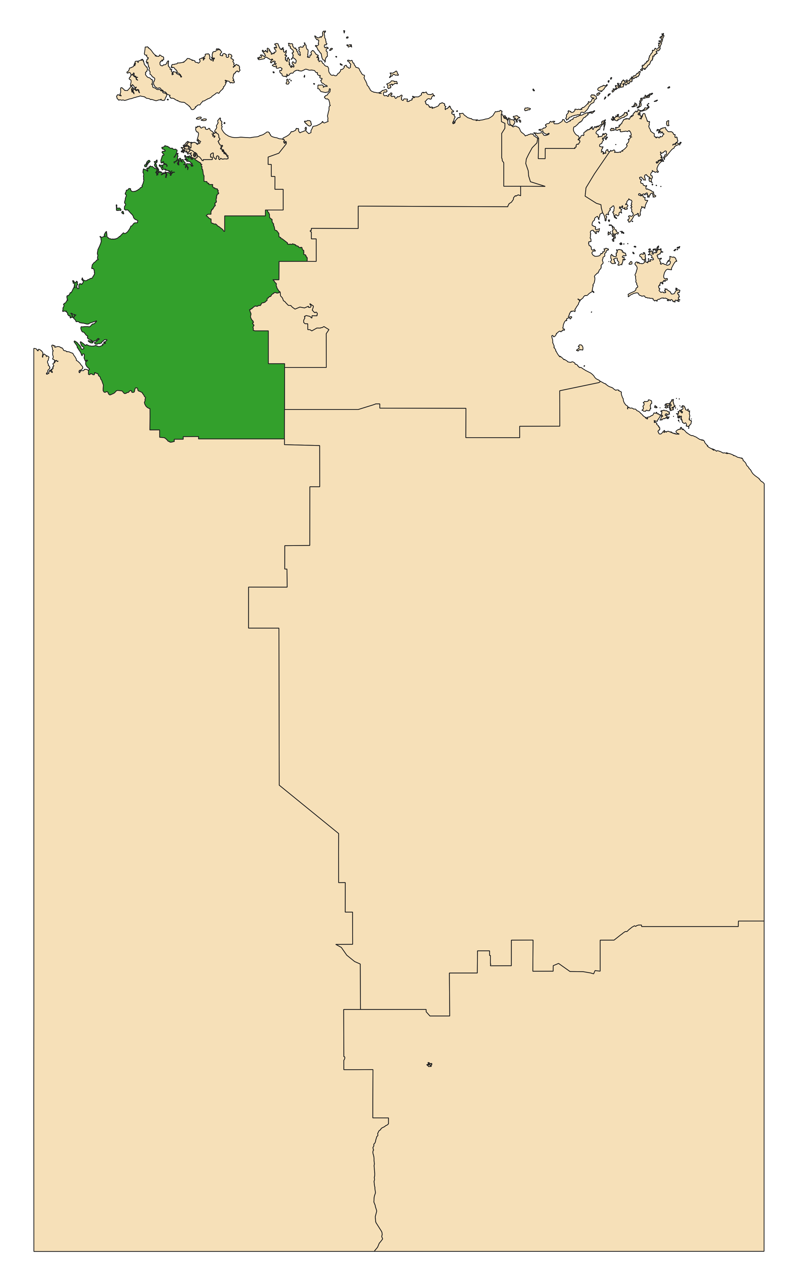 Location of the electoral division of Daly (dark green) in the Northern Territory at the 2020 Northern Territory election